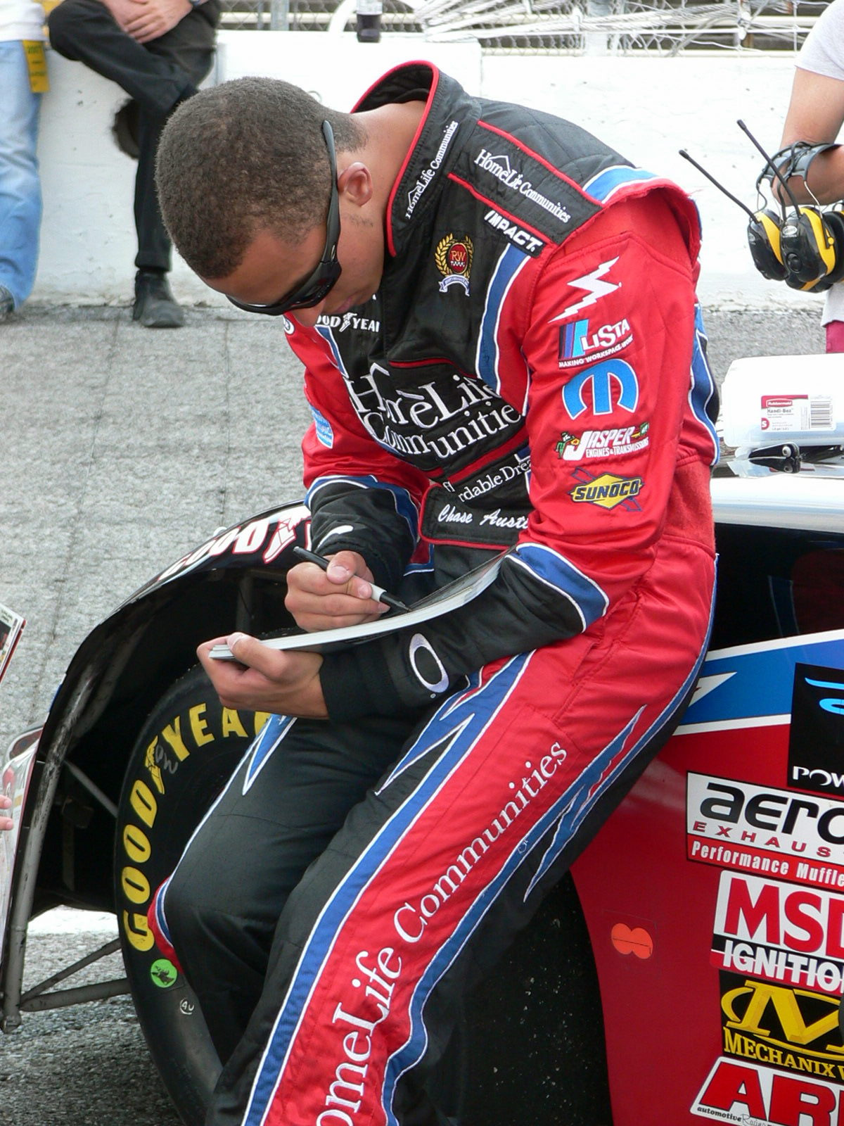 NASCAR Busch East Series driver Chase Austin at Nashville in July 2007.